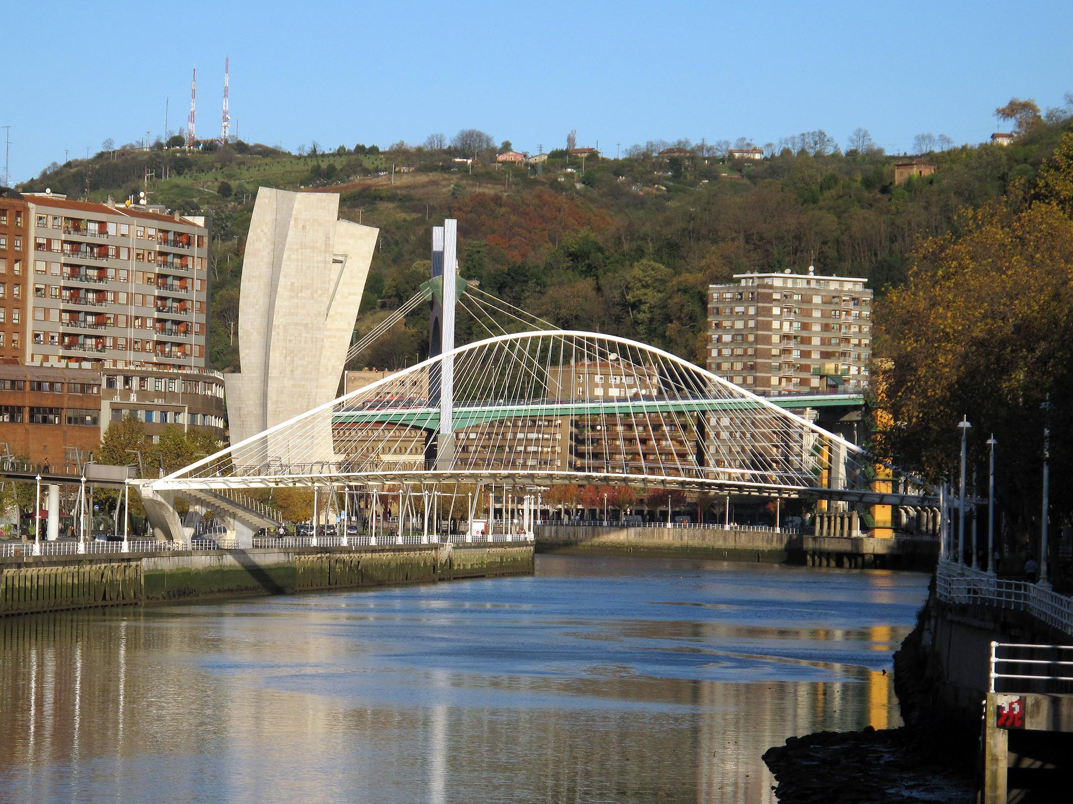 Santiago Calatrava, Puente Zubizuri, 1994/97, – Spain, Bilbao, Ría de Bilbao